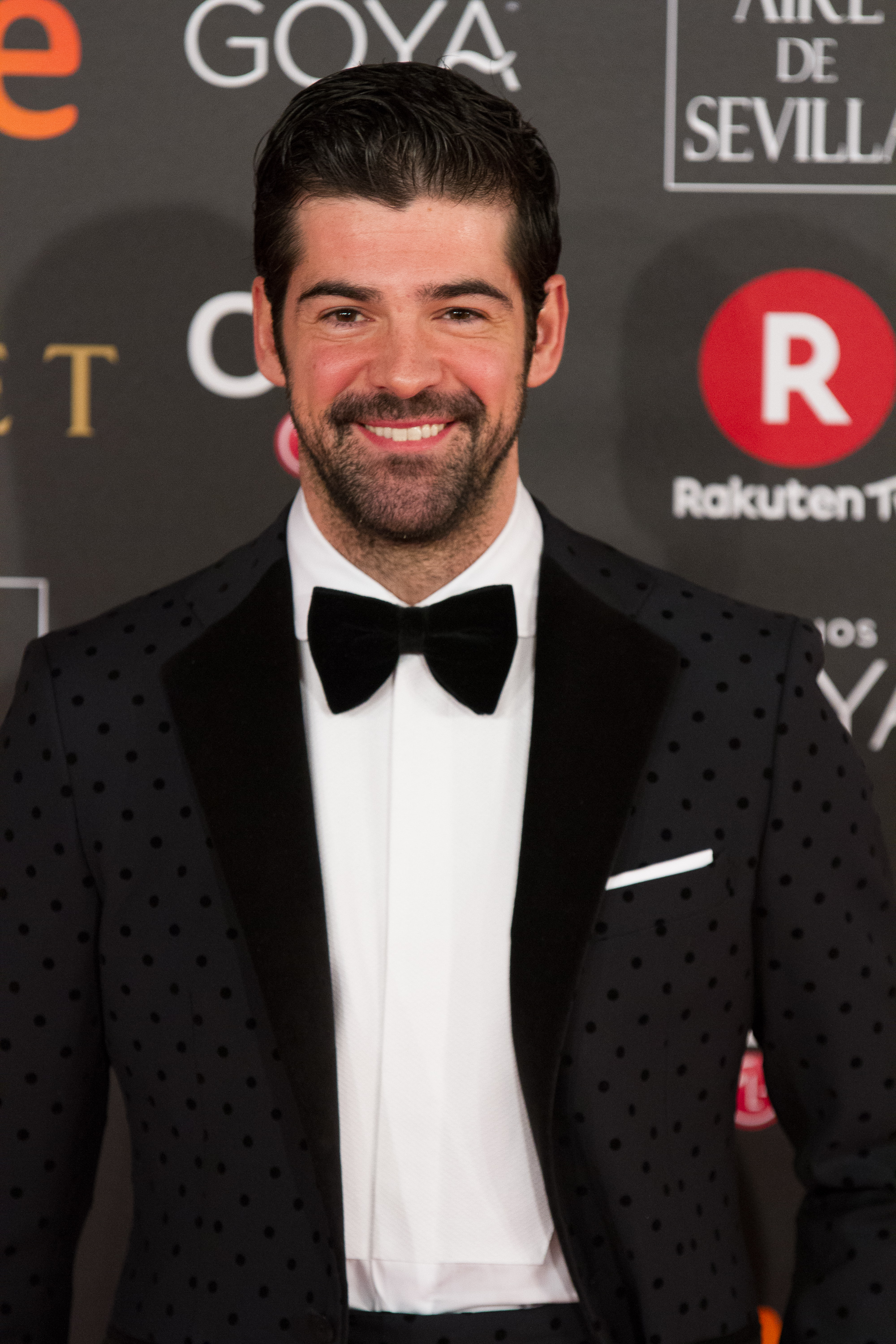 32nd Goya Awards, 2018.